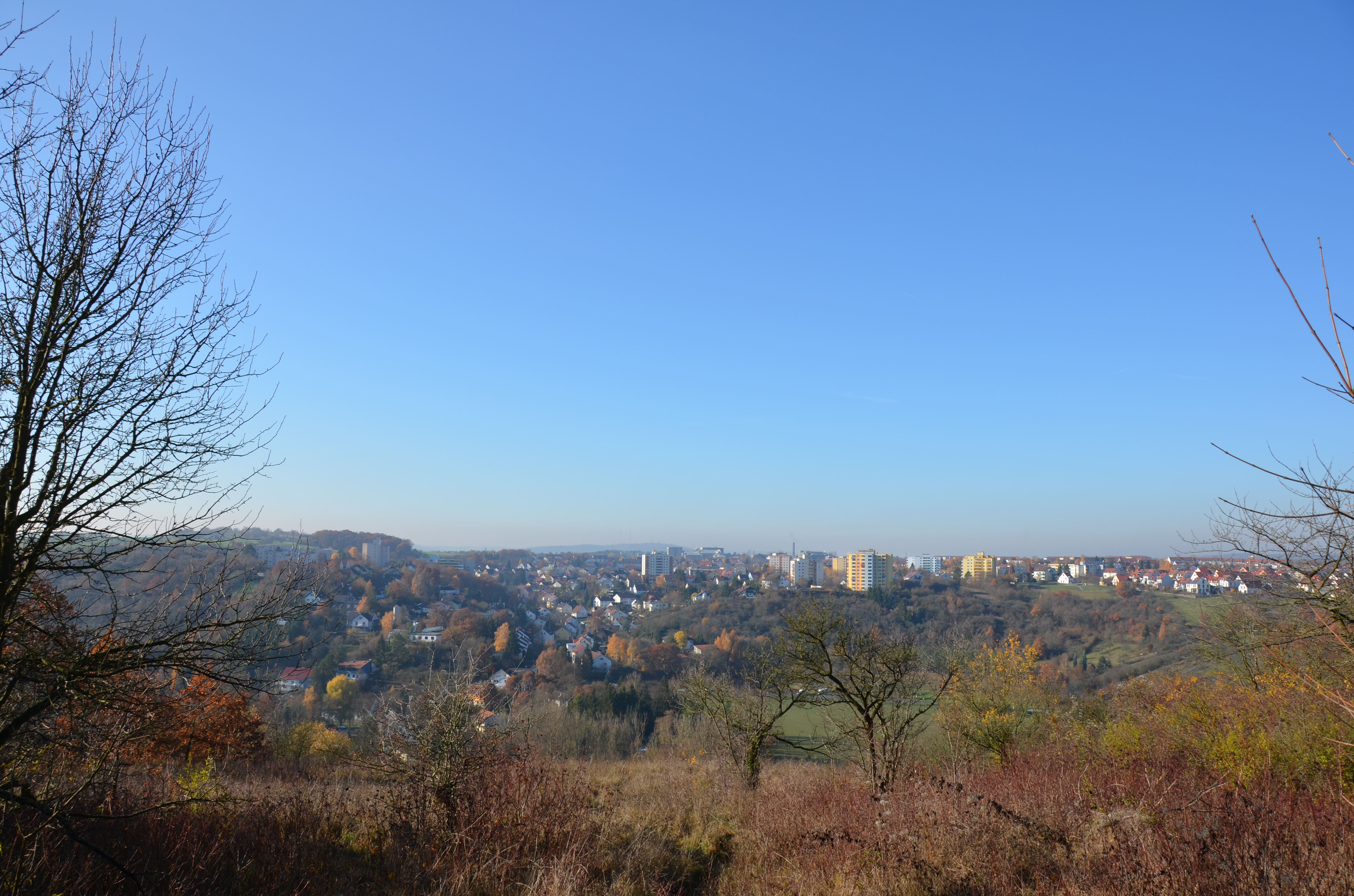 View of the main valley of Gerbrunn between the Happachberg and the Zottenhügel. The course of the main road winding through the vally is hinted by the houses. The roman catholic church St. Nikolaus is clearly visible. Some of the Julius-Maximilians-Universität Würzburg's buildings (Hubland campus) can be made out in the center of the Picture at the end of the build-up area. In the background one can see the Frankenwarte and the radio towers on the Nikolausberg near Wuerzburg.